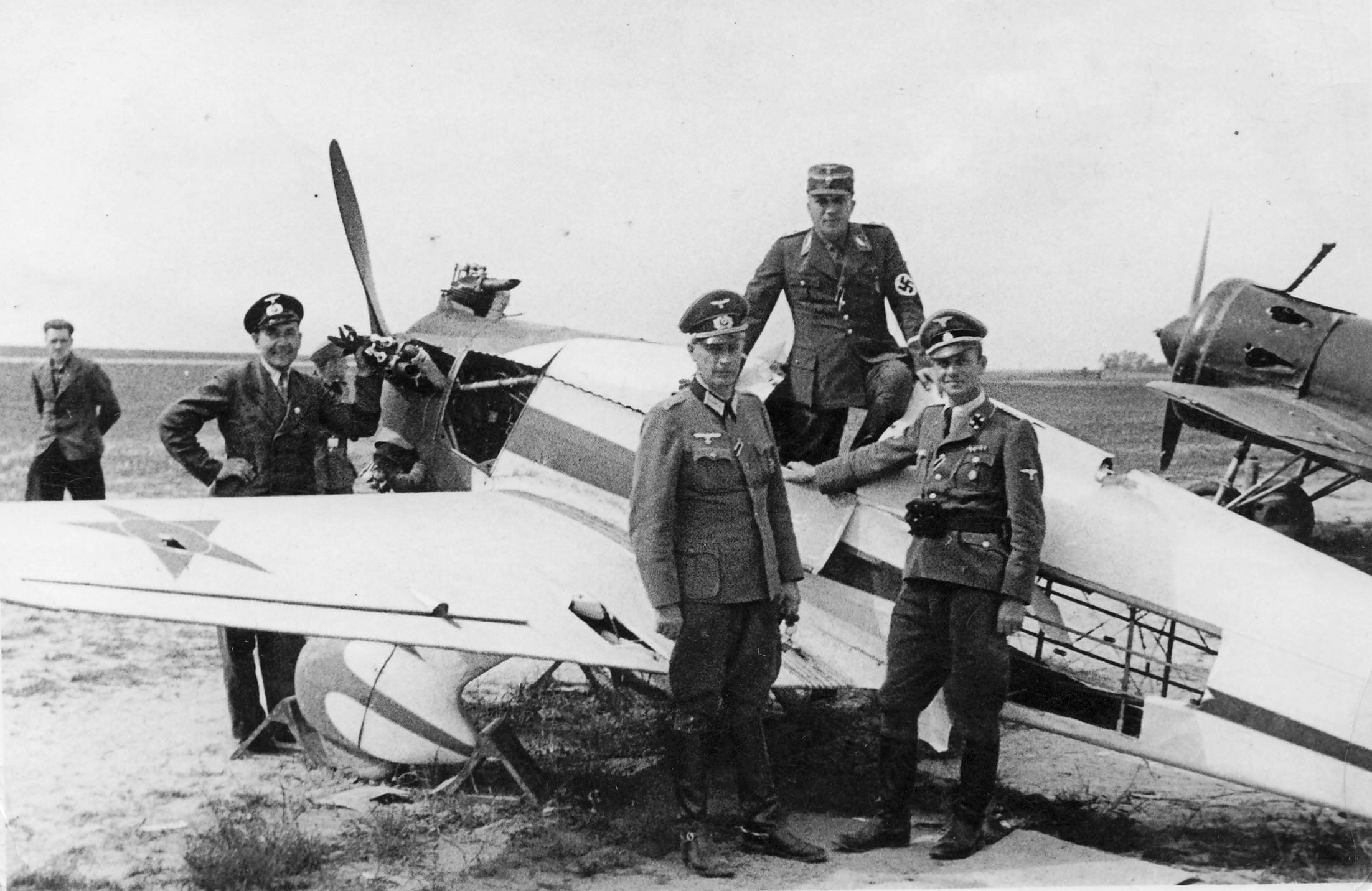 Operation Barbarossa: Germans inspecting Soviet planes. The plane in the front is Yakovlev UT-1 and the one in the back is Polikarpov I-16.